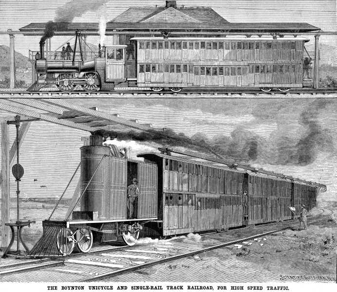 Illustration of the Boynton Unycicle Railroad, print published on Scientific American, March 28, 1891. The upper view shows an improved version of the locomotive, designed and built "for use on a street railway of a Western city"